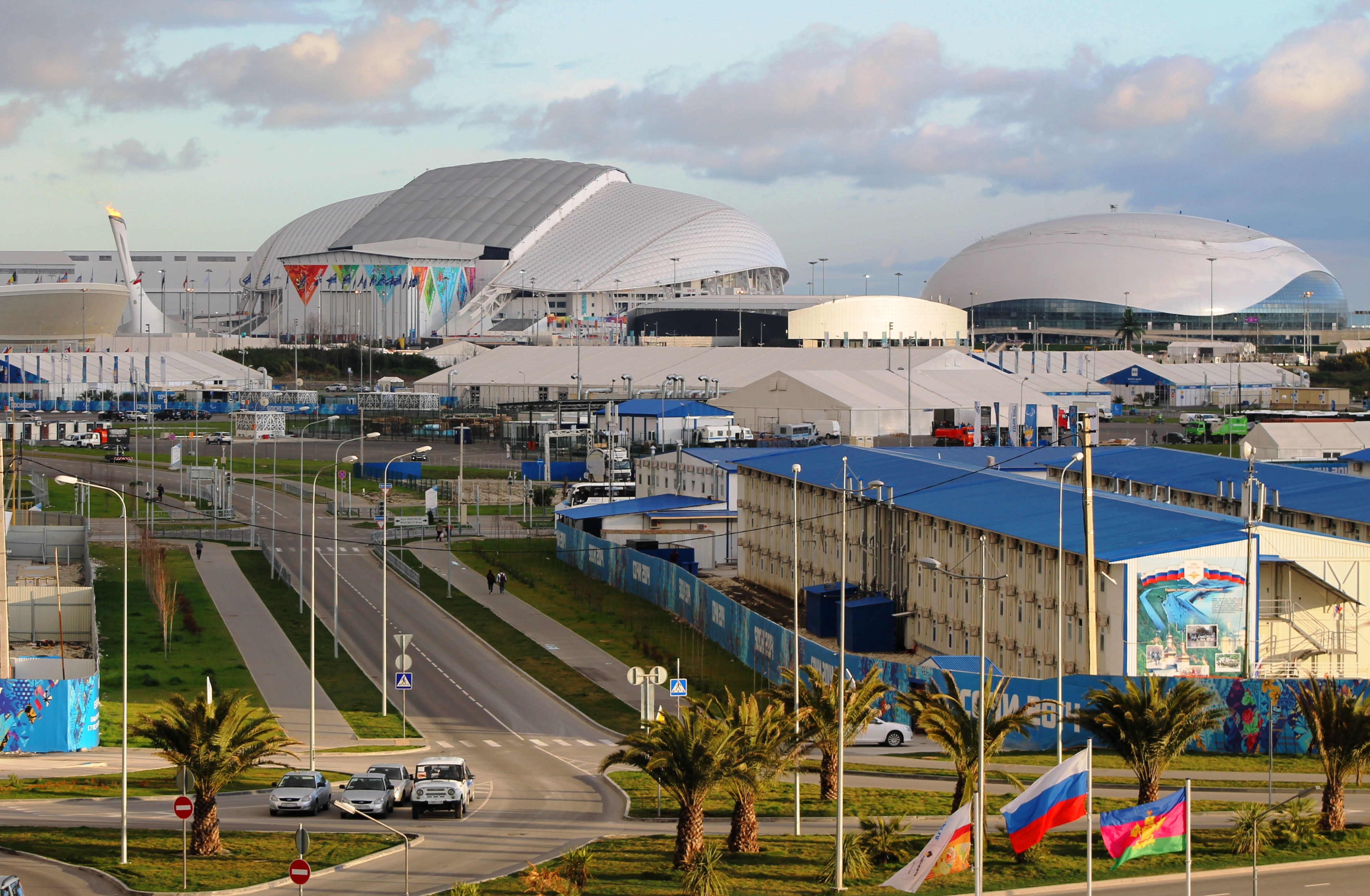 General view of the Olympic Park of Sochi in Imeretinsky Valley during the 2014 Winter Paralympics.